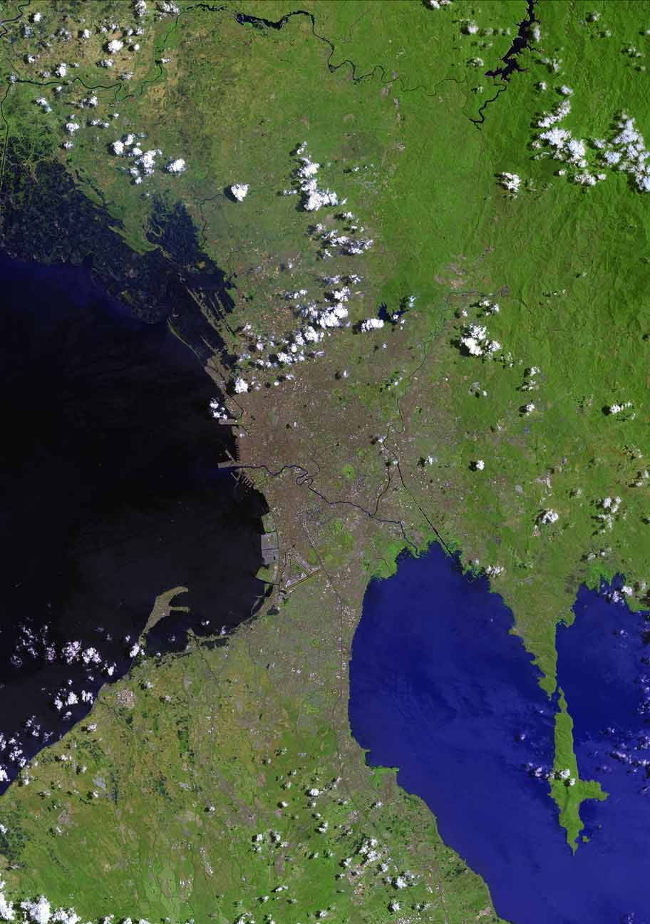 The raw satellite imagery shown in these images was obtain from NASA and/or the US Geological Survey. Post-processing and production by